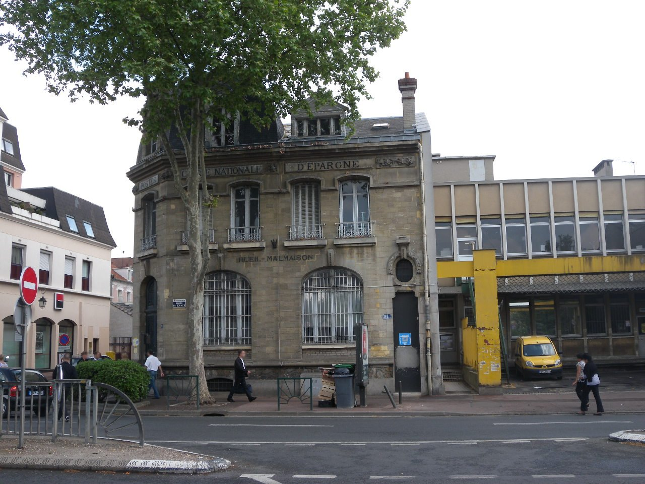 A 1909 Post Office, Paul Doumer avenue in Rueil-Malmaison, Hauts-de-Seine, France.